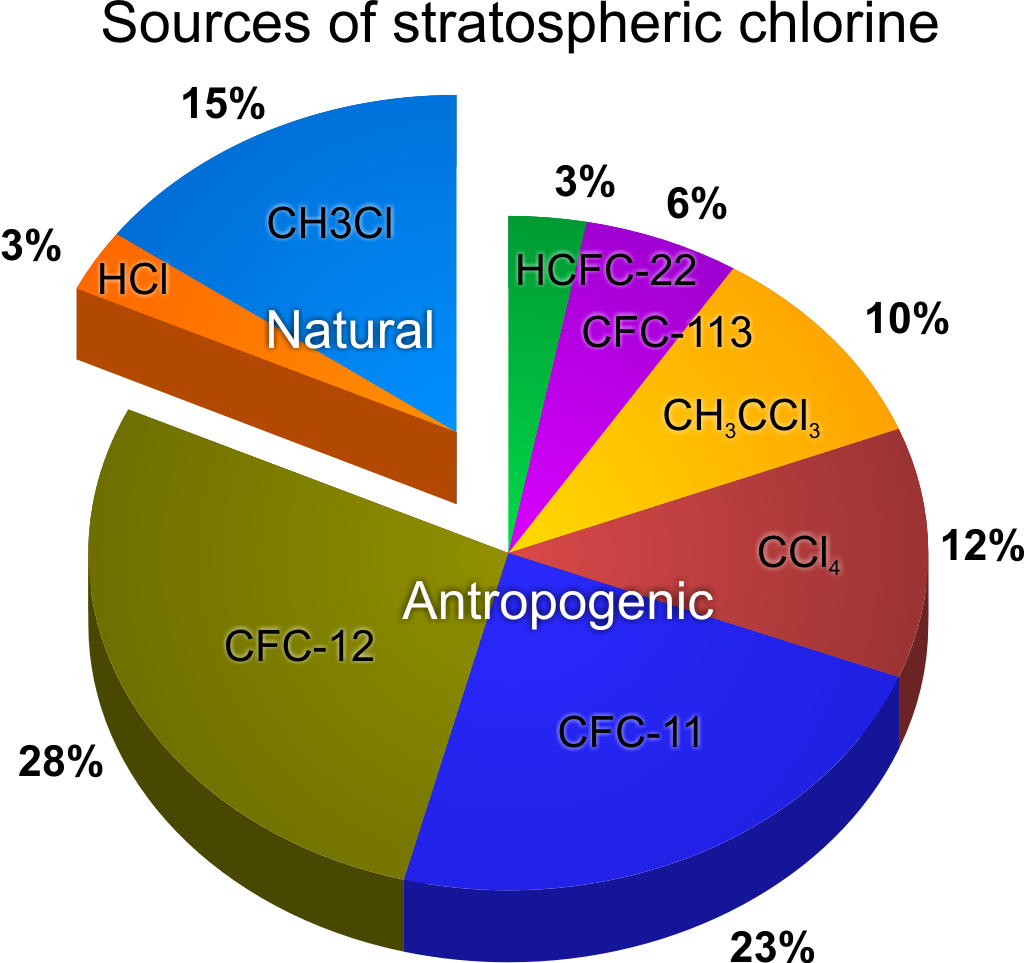 Sources of stratospheric chlorine. According to World Meteorological Organization, Scientific Assessment of Ozone Depletion: 1998, WMO Global Ozone Research and Monitoring Project - Report No. 44, Geneva, 1998.